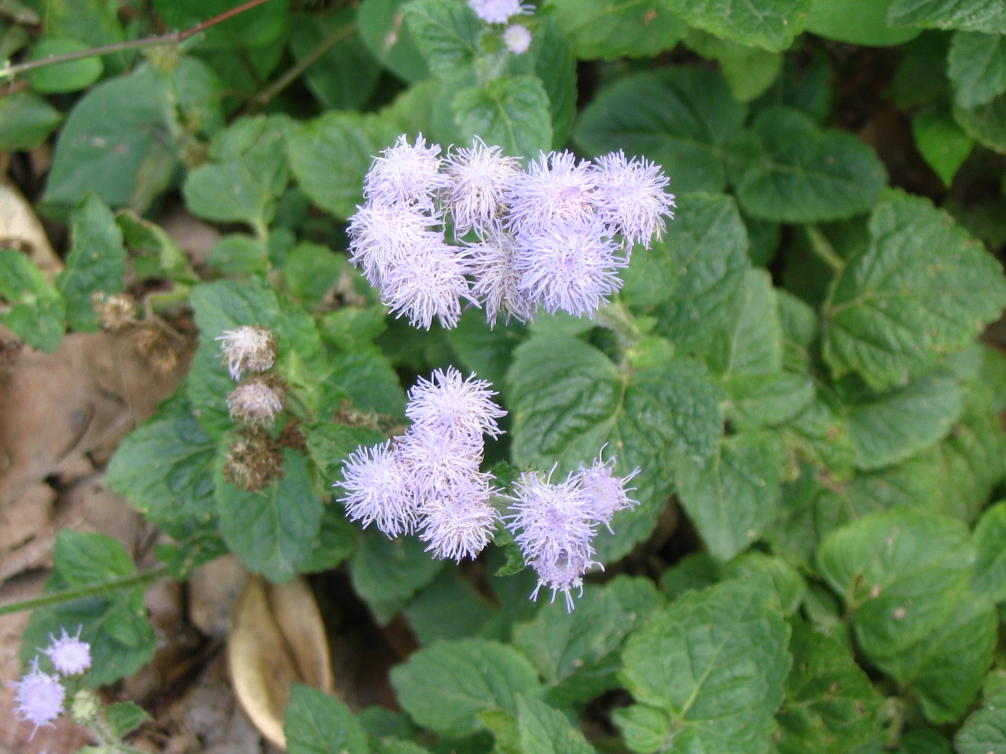 Photo of Ageratum conyzoides